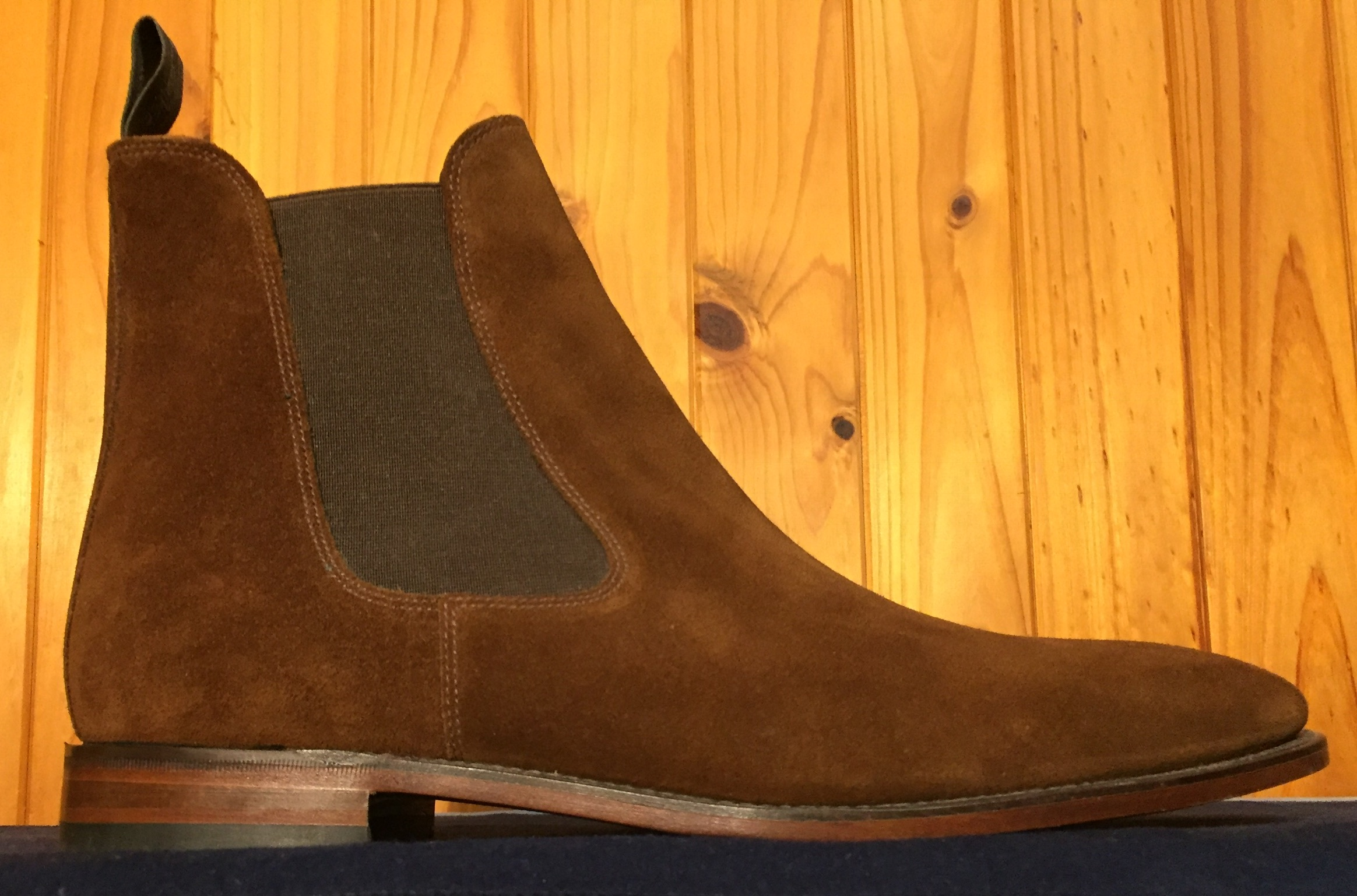 Loake "Mitchum" Chelsea boot in brown suede